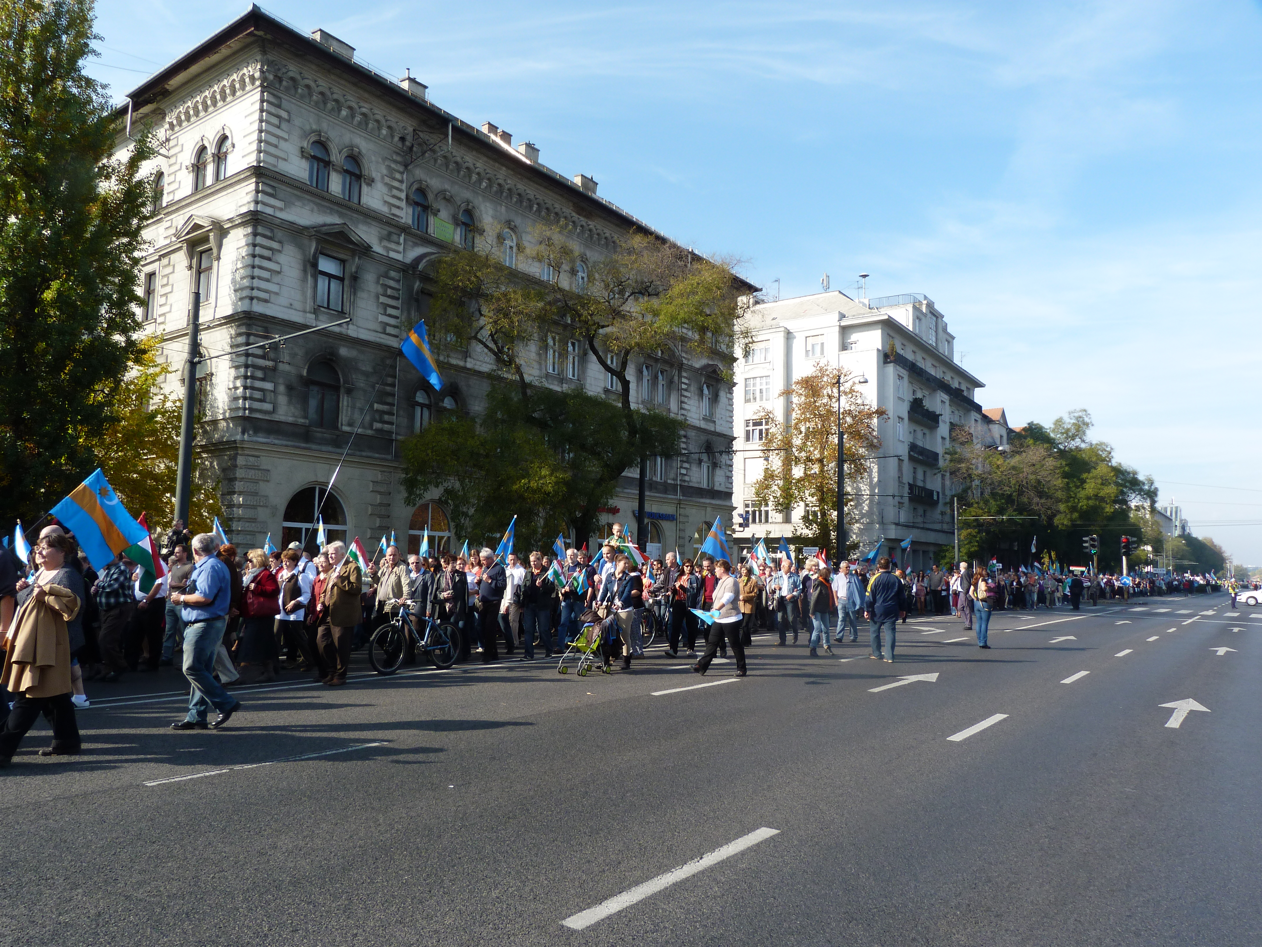 Székely (pronounced [ˈseːkɛj]) Land or Szeklerland (Hungarian: Székelyföld; Romanian: Ţinutul Secuiesc